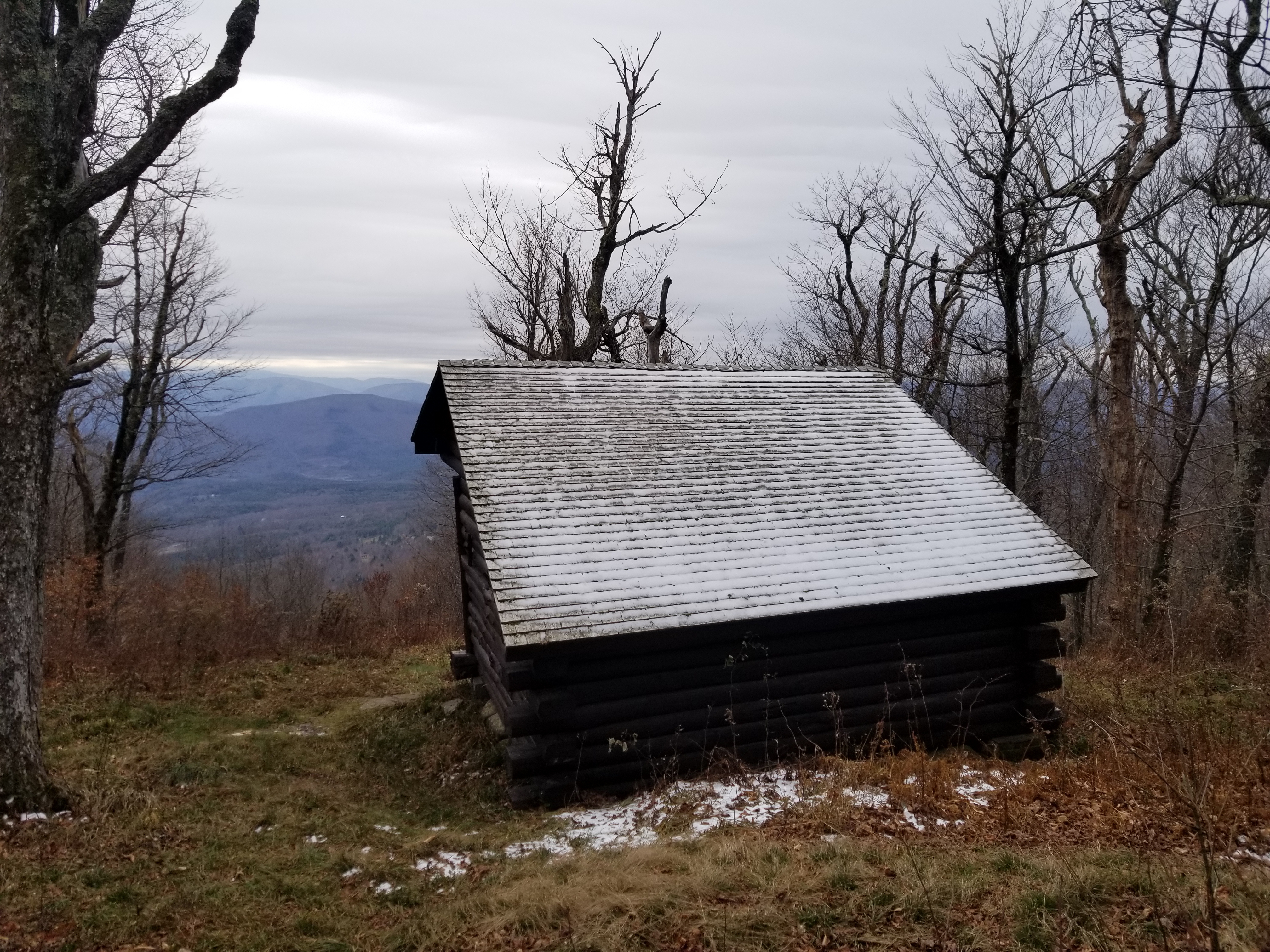 Lean-to shelter at the summit of Huntersfield Mountain, Greene and Schoharie Counties, New York